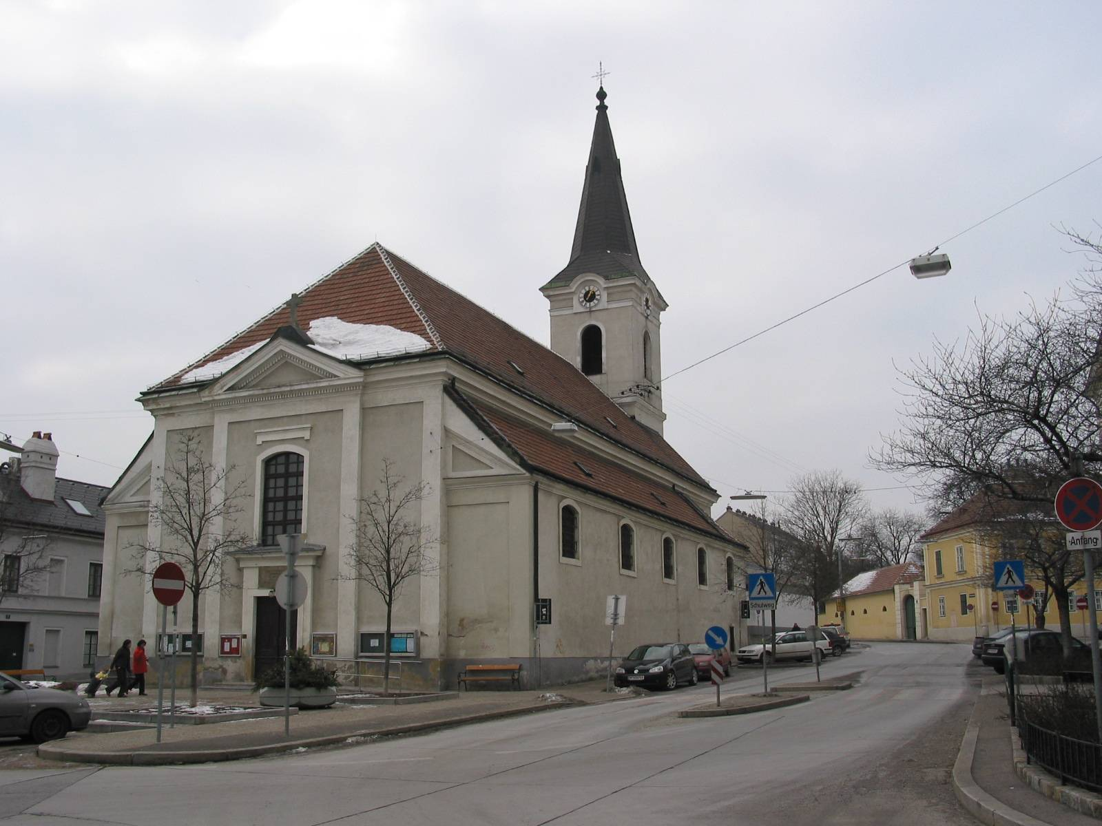 Church of Atzgersdorf, Vienna